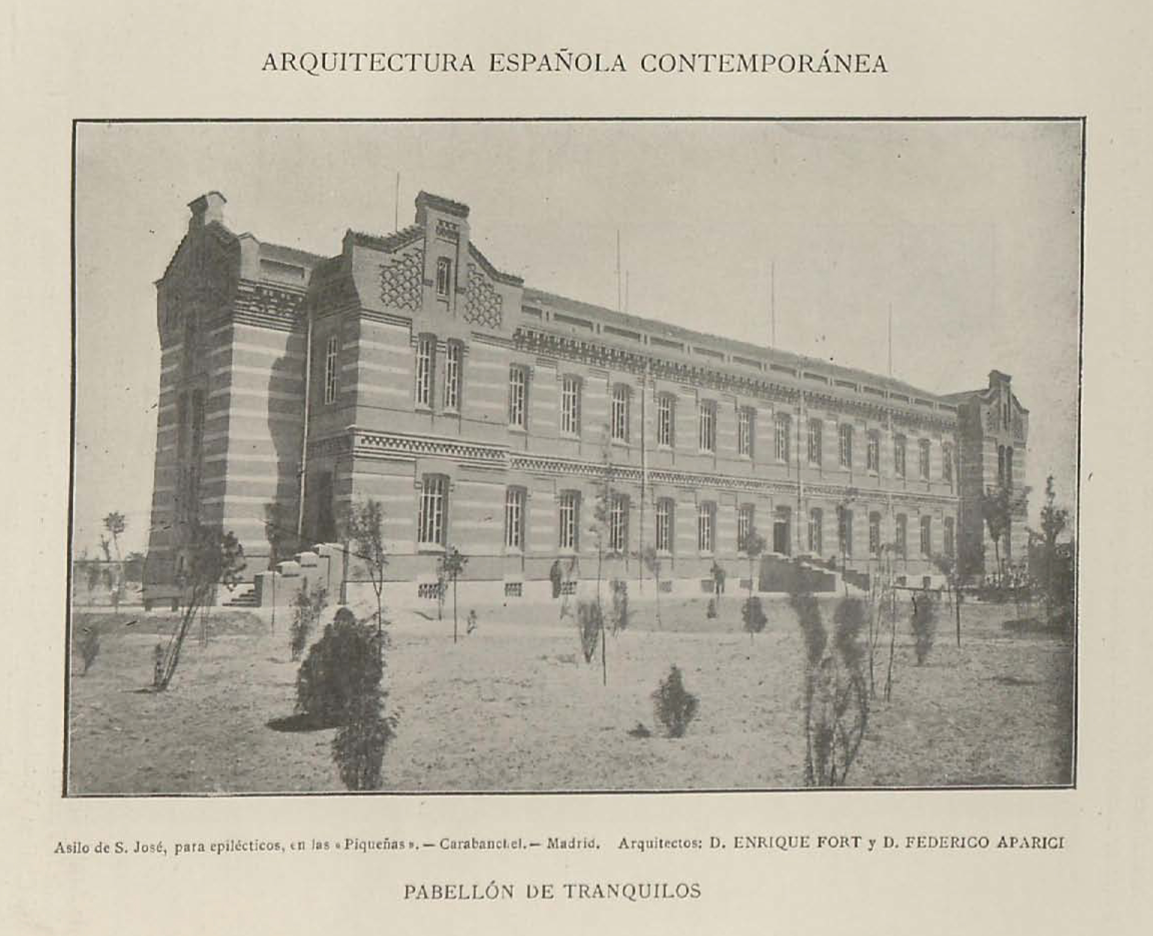 Pabellón de tranquilos. Asilo de San José para epilépticos, en las Piqueñas, Carabanchel.